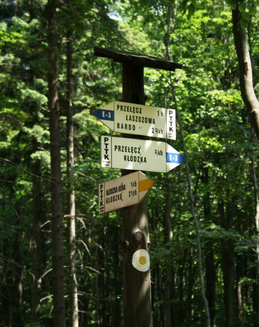 Kłodzka Mountain in Bardzkie Mountains, Sudety Mountains, Poland